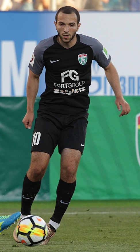 Georgi Melkadze with FC Tosno in a game against FC Zenit Saint Petersburg.